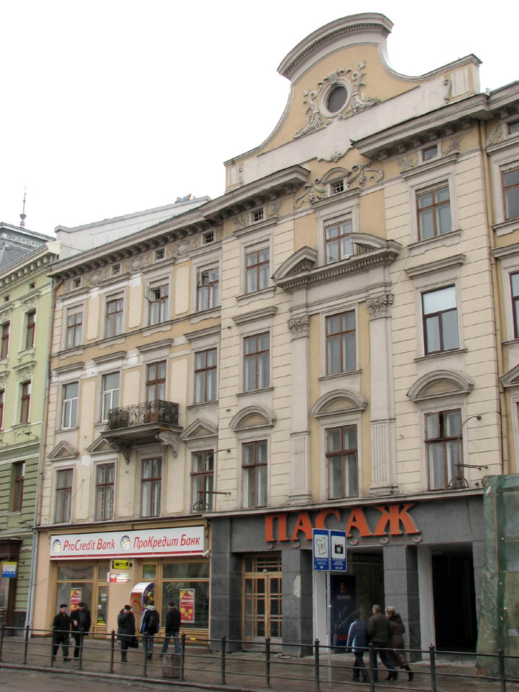 Former pasage in Lviv